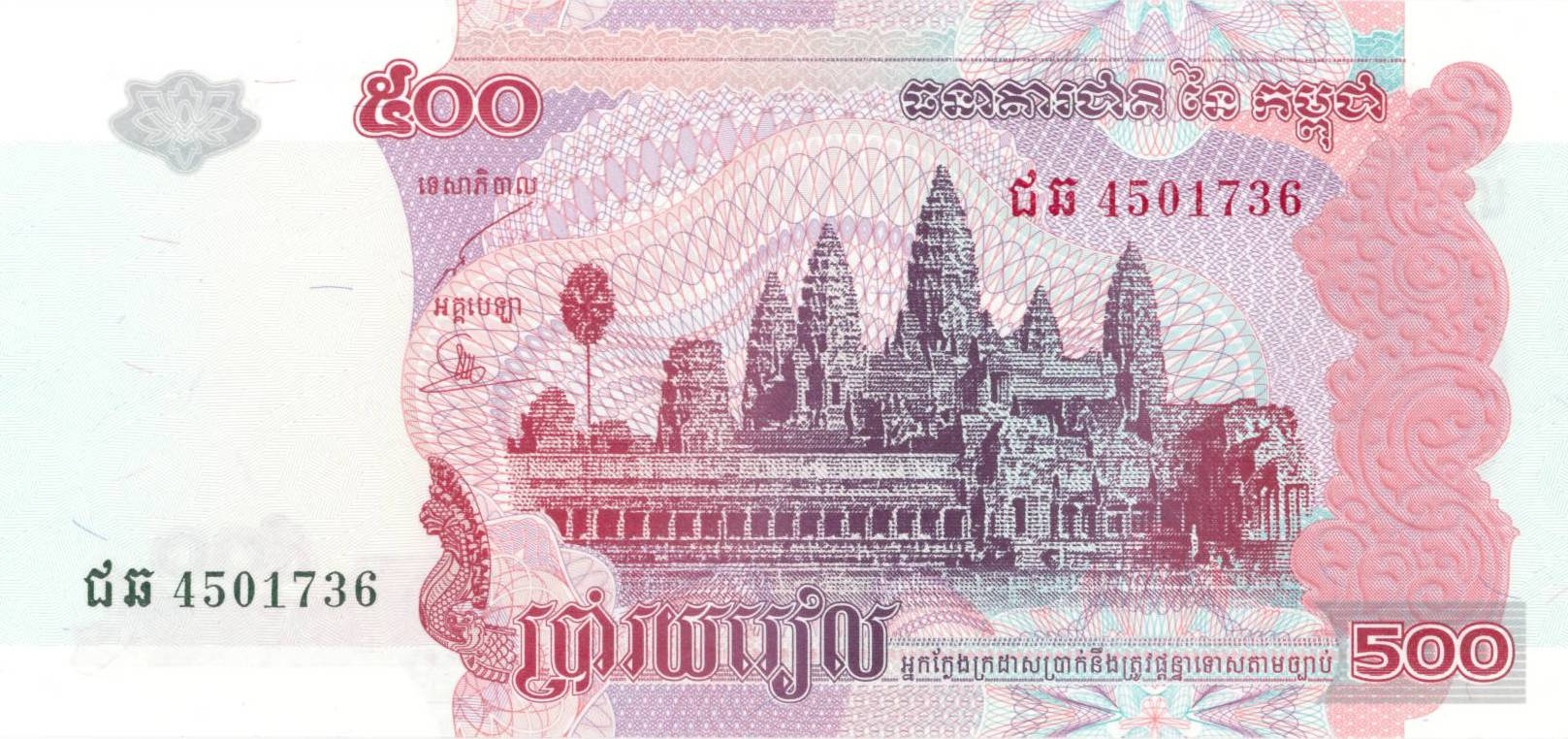 This note is one of my collection and i scanned it